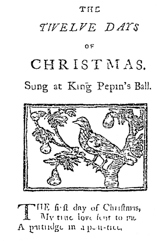 Title page from the first known publication of "The 12 days of Christmas" in 1780